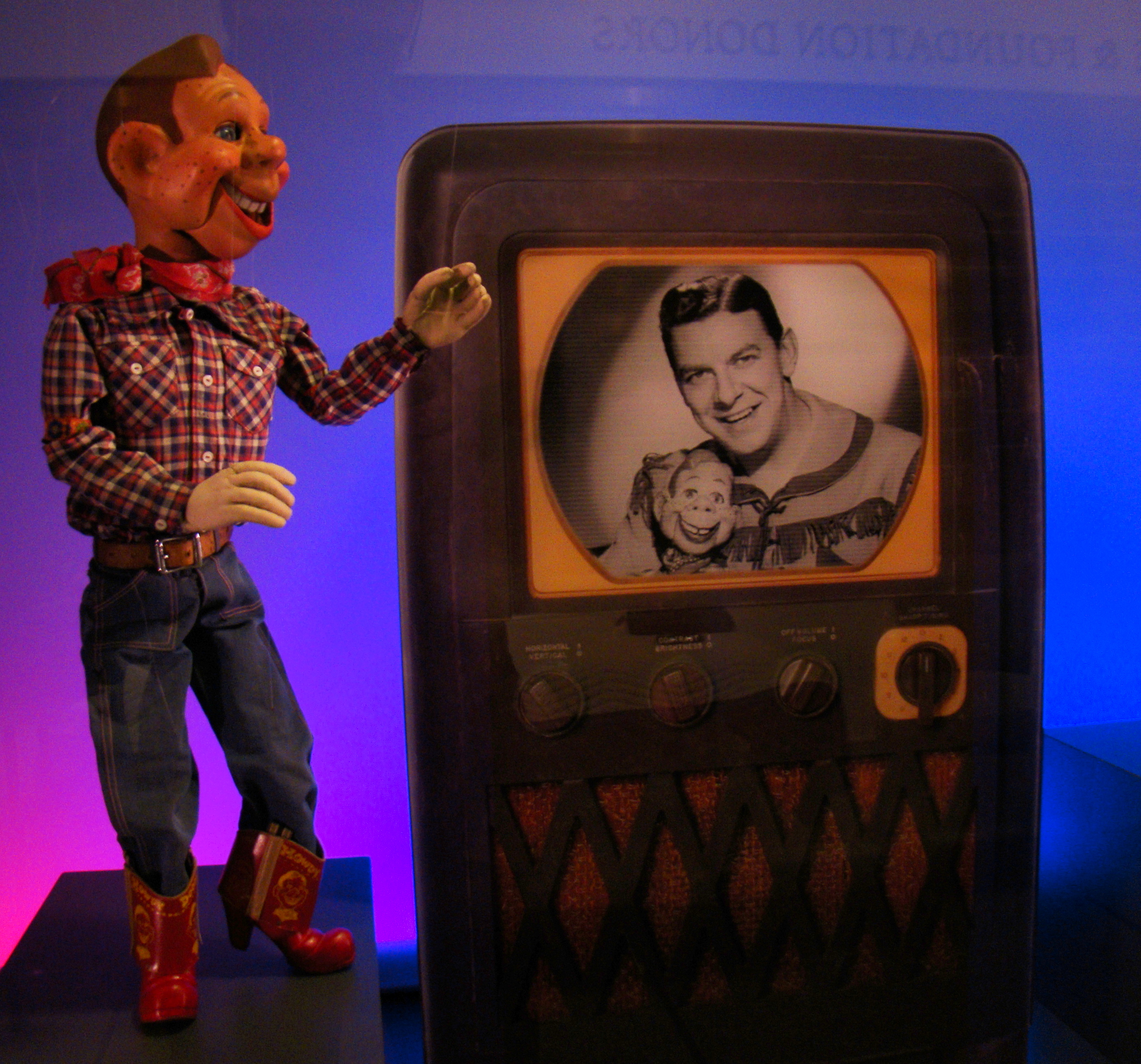 Howdy Doody being displayed at Detroit Institute of Arts Puppet Display Case. The case is illuminated by programmable LED lighting system. There are about 1300 Color LEDs are being used for creating different effects